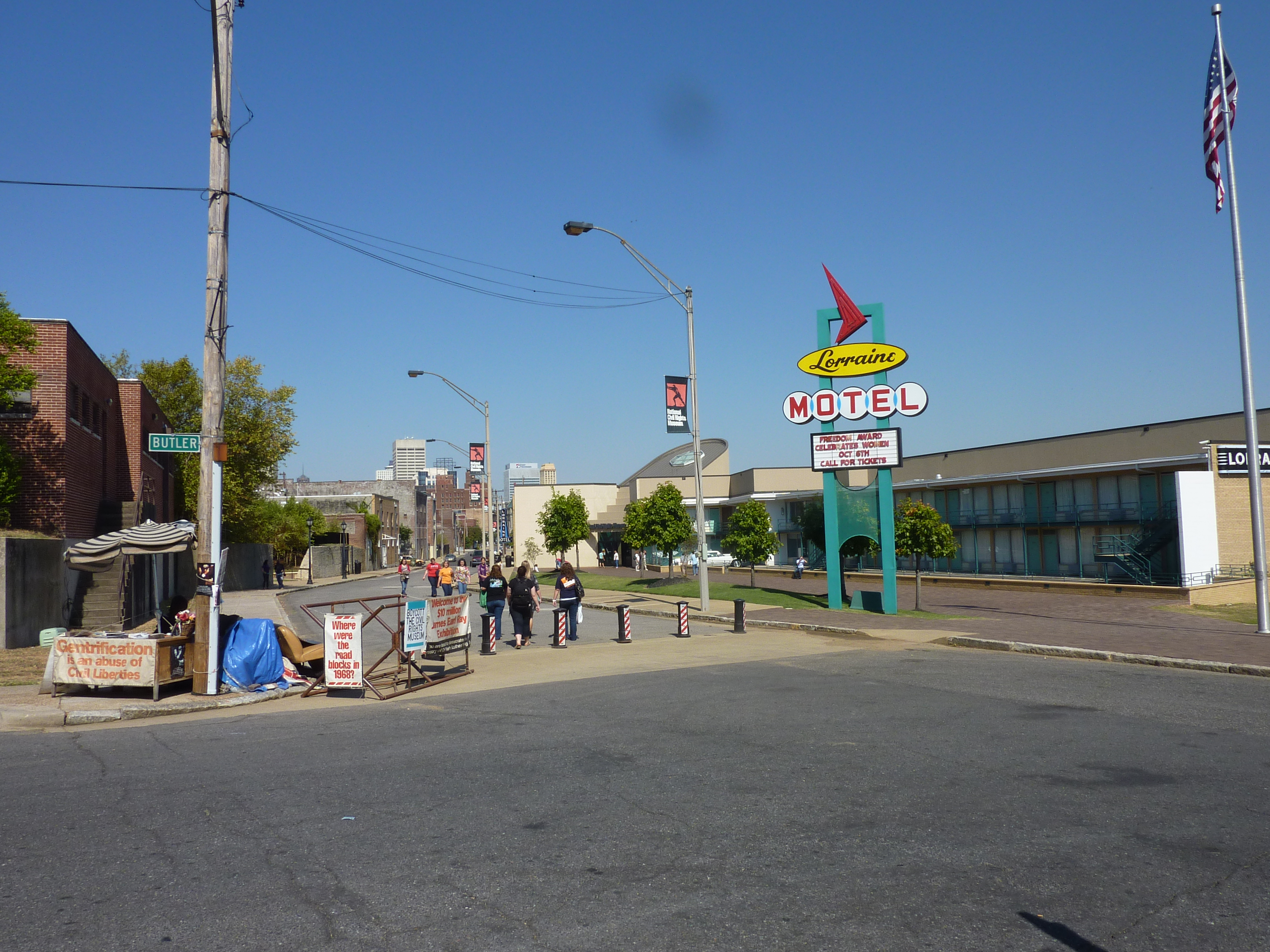 Protest at the Lorraine Motel